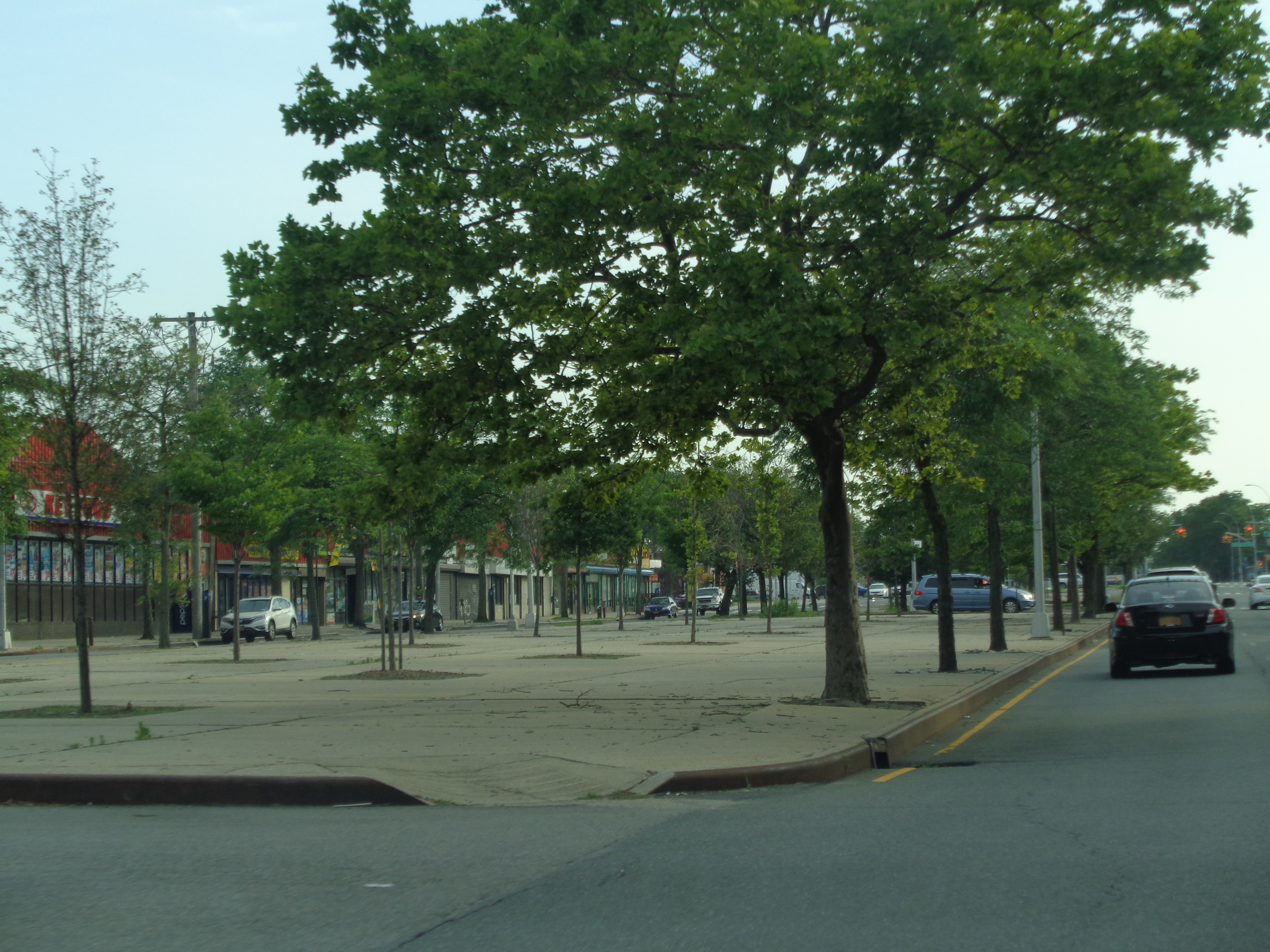 Traveling west along Hillside Avenue at 88th Avenue in Bellerose, Queens, just east of Springfield Boulevard. The wide median of Hillside Avenue was originally constructed to facilitate a terminal station for the IND Queens Boulevard subway line at Springfield Boulevard. This station was never constructed, and the subway currently ends at Jamaica–179th Street.